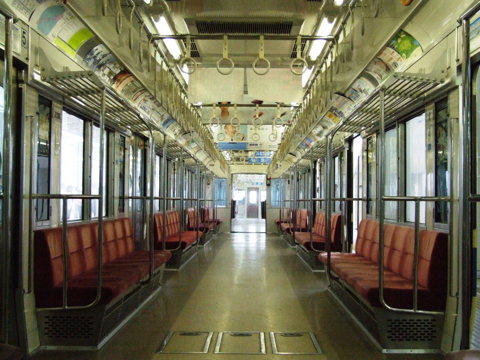 Inside of Series 5200,Odakyu Electric Railwey,Japan